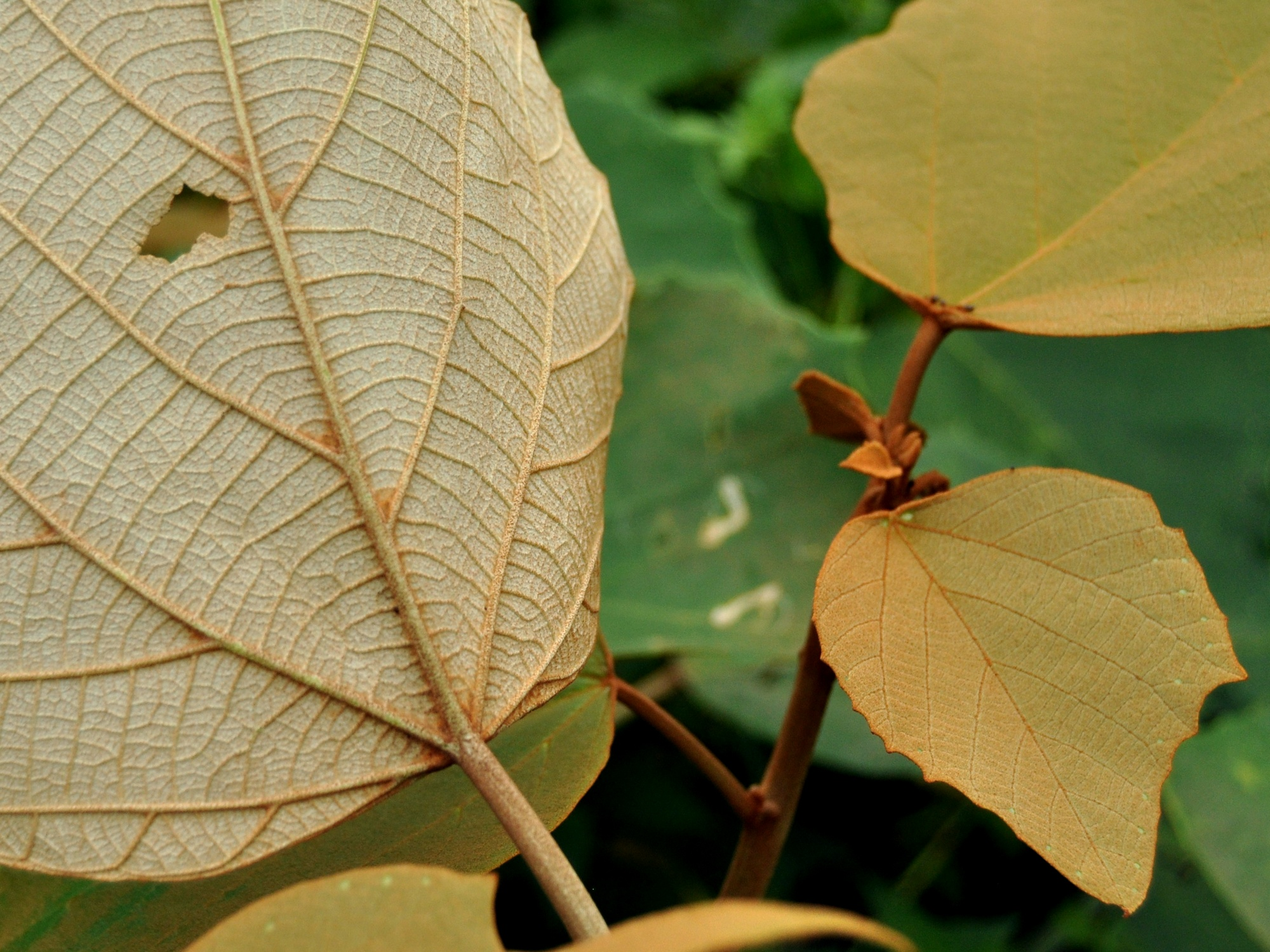 Mallotus macrostachyus; Underside of a leaf; domatia at the corner of secondary veins. From Rokan Hilir, Riau, Indonesia.